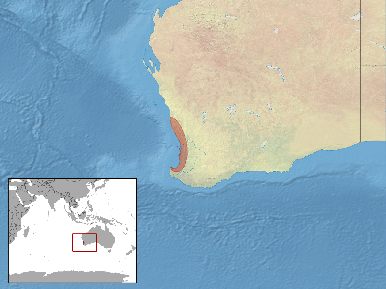 geographic distribution of Hemiergis quadrilineatum